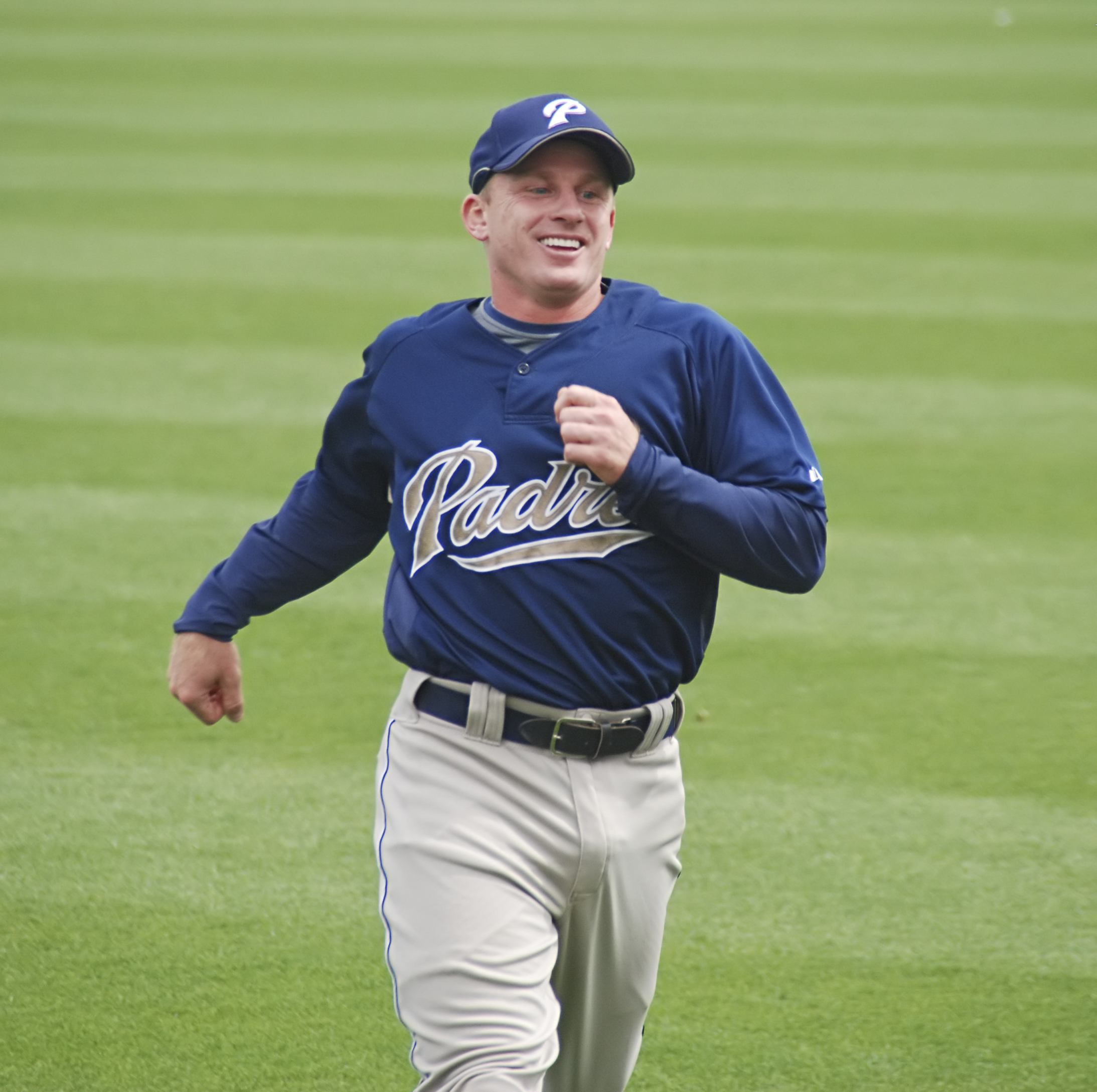 David Eckstein baseball player for the San Diego Padres 2009 spring training